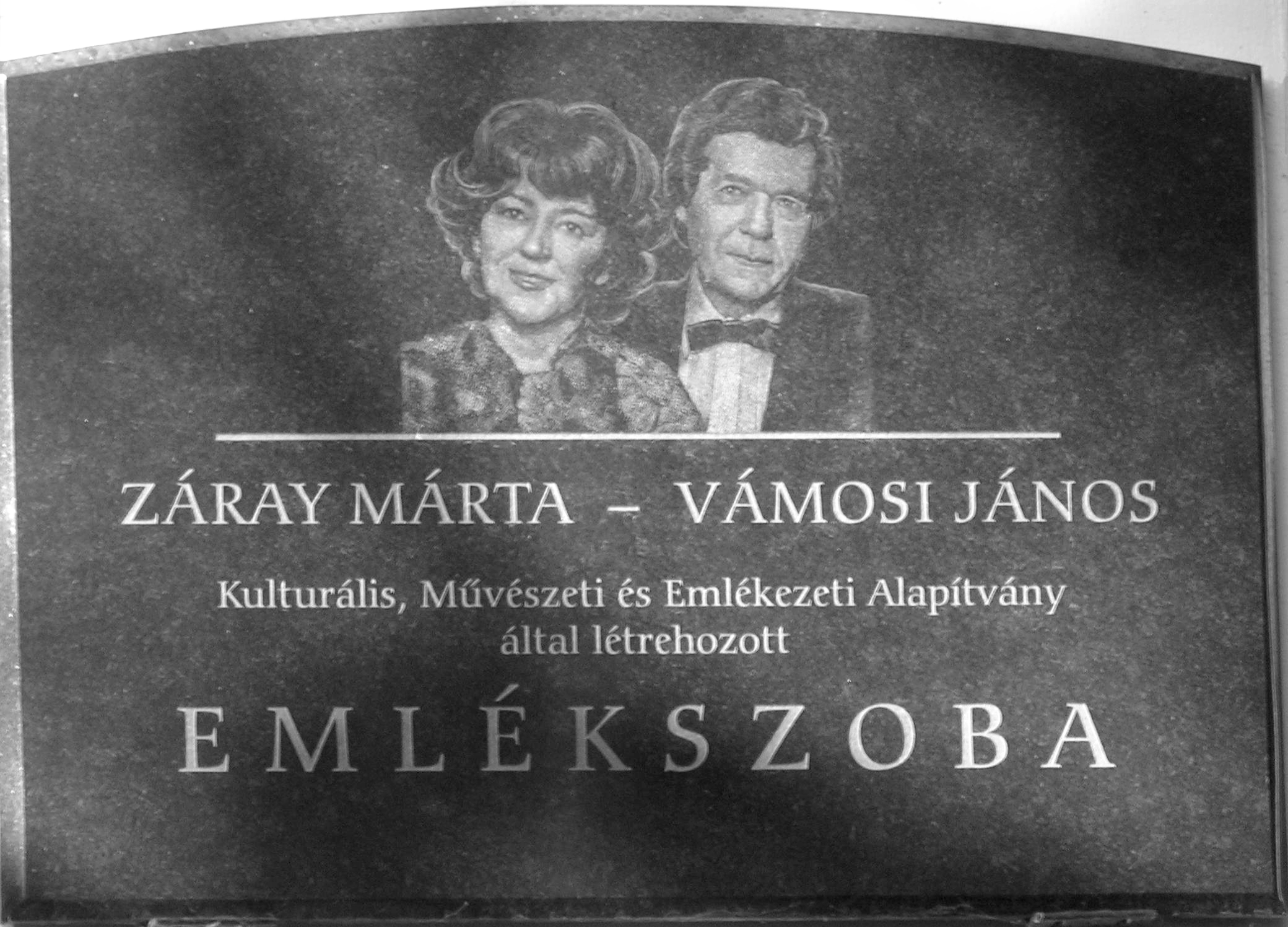 Commemorative plaque of Márta Záray and János Vámosi in Budapest District II, Orsó Street No 13